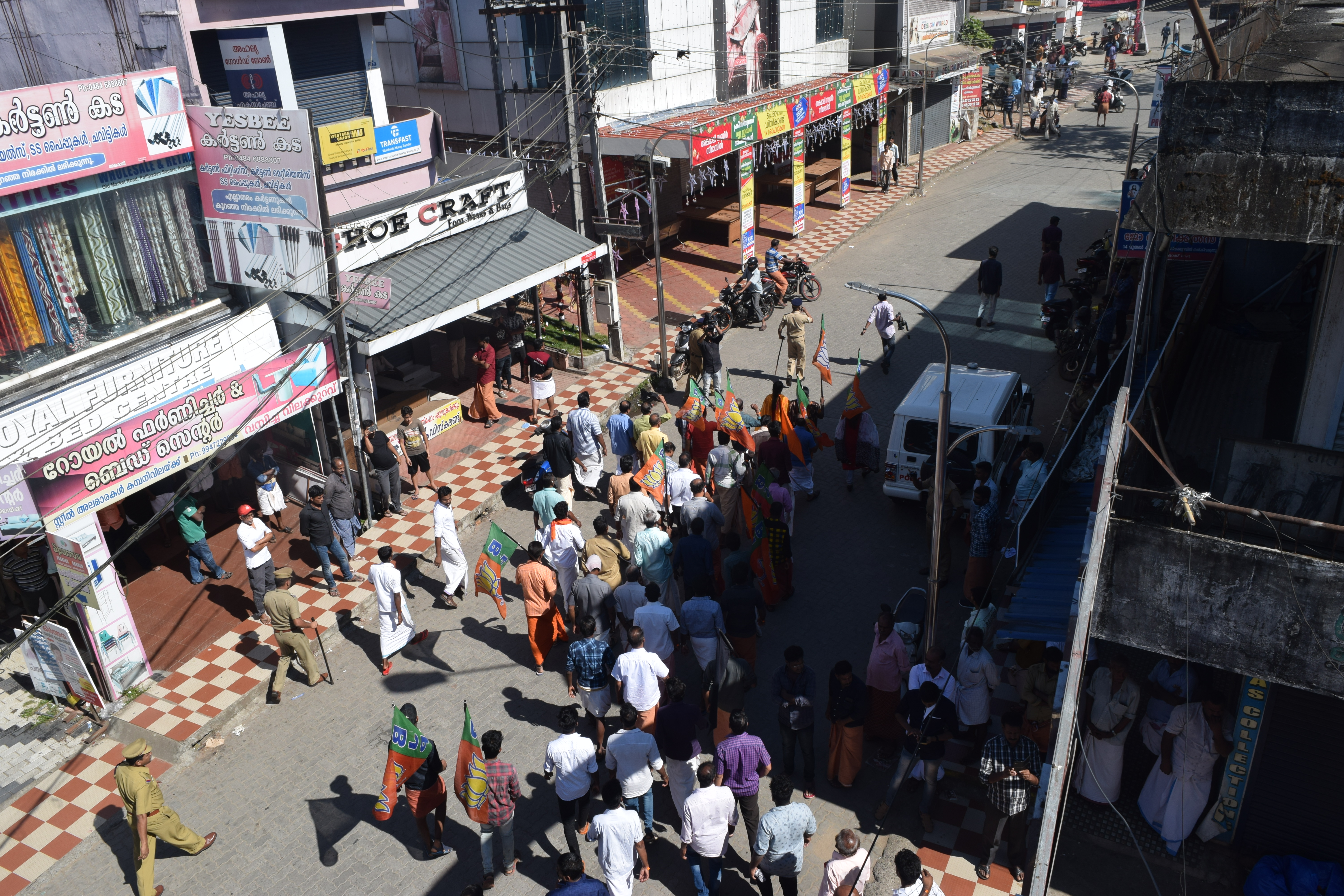 BJP Conducting March on Kerala Harthal (Declared for protesting against young women entry on Sabarimala temple) Day 3rd January 2019